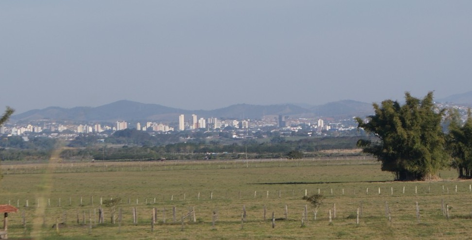 View of Taubate from Tremembe.